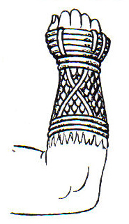 line art drawing of cestus.